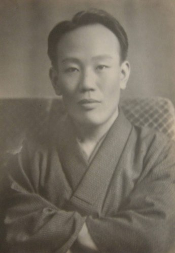 Eijirou Nakajima